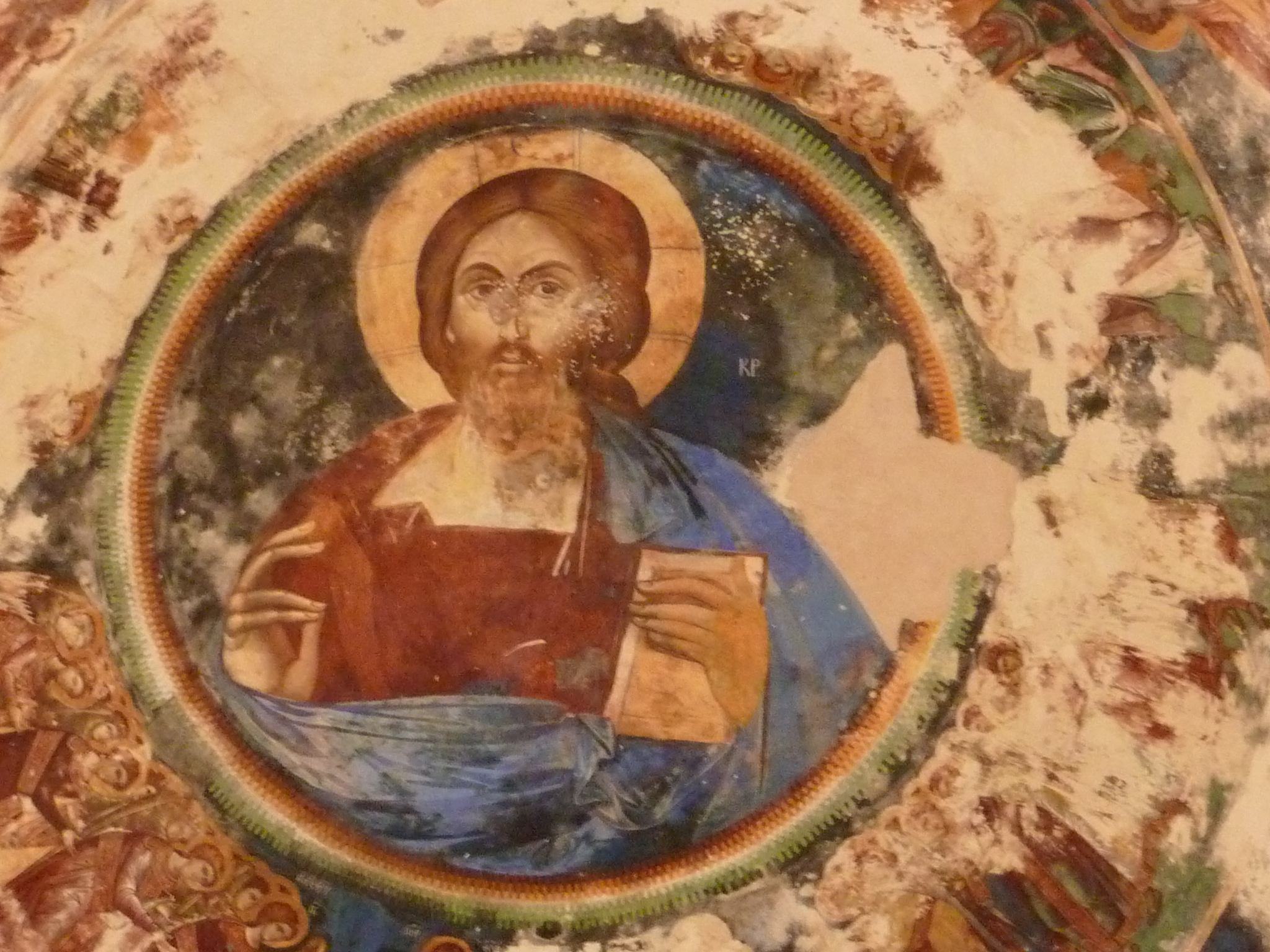 Antiphonitis, Northern Cyprus